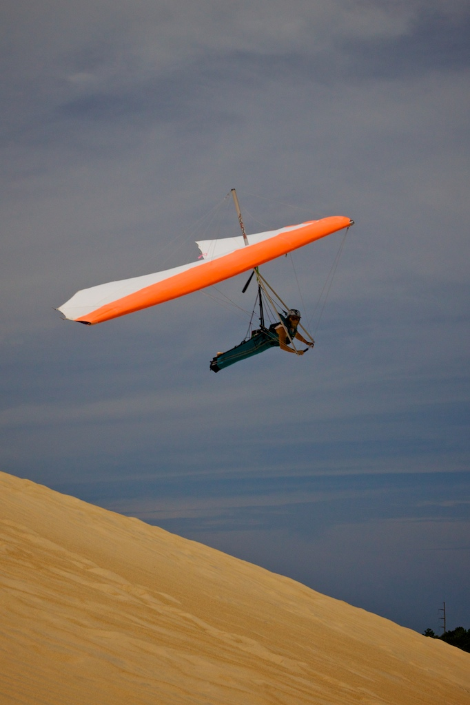 photograph of a hang glider taking off from one of the sand dunes of Jockey's Ridge State Park on the Outer Banks of North Carolina.